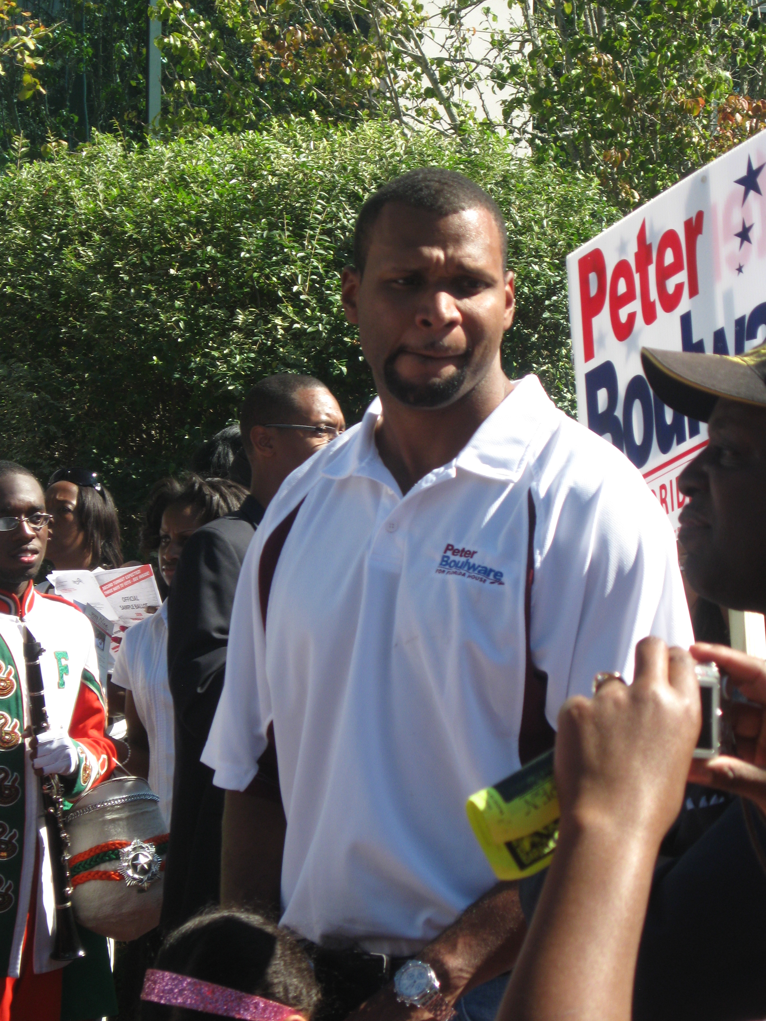 Republican candidate for Florida House District 9 2008 Early Voting 2008 Rally at Leon County Courthouse in Tallahassee, FL featuring FAMU Marching 100